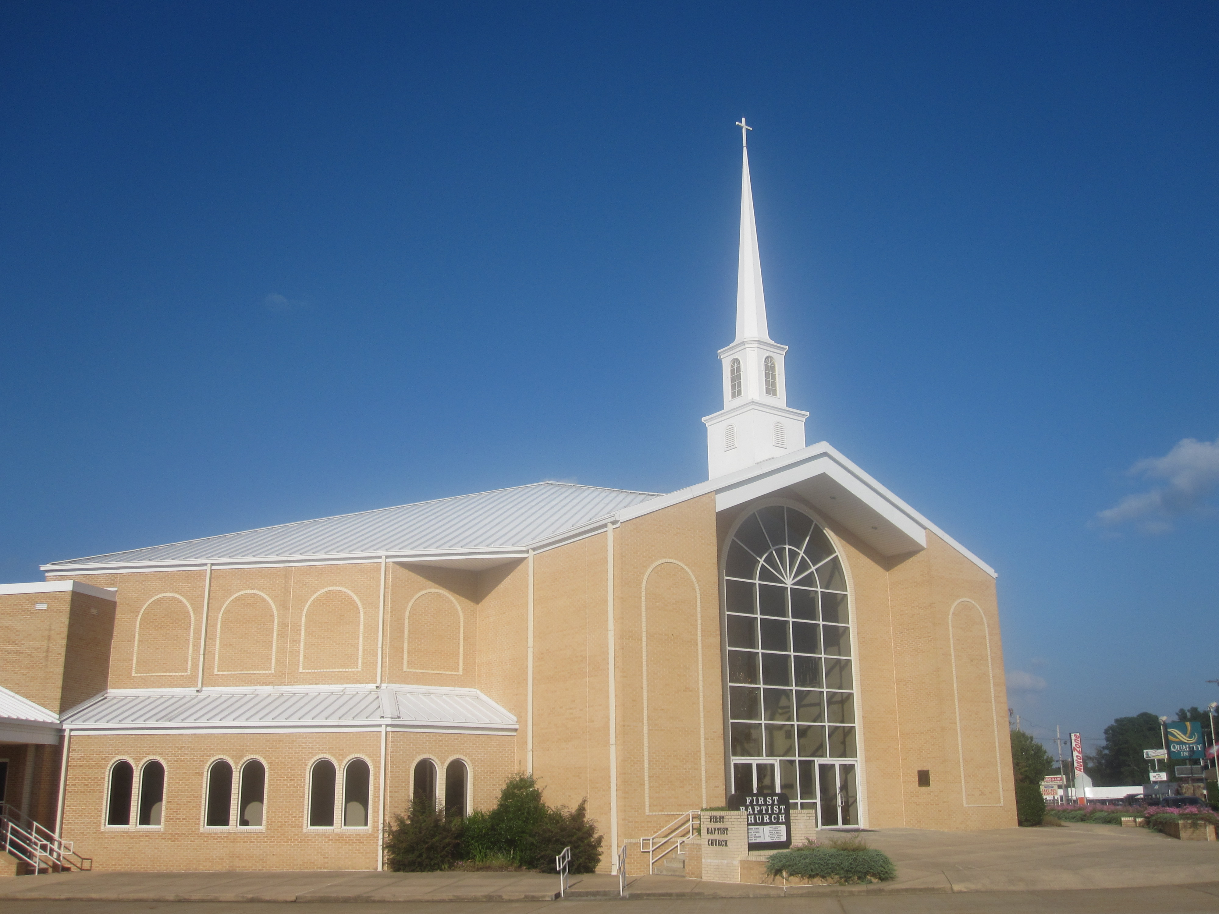 Revised photo of First Baptist Church of Magnolia, AR